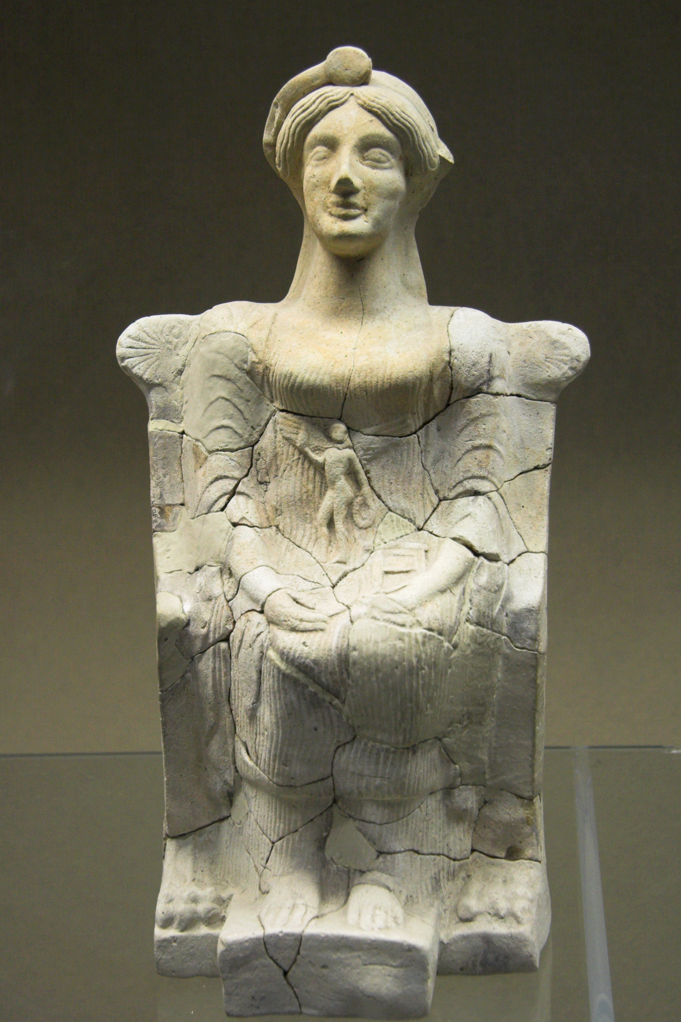 Statuette of a Locrian made Persephone-Aphrodite, with a patera and sacred box in her hands. Larger terracotta, A winged god, Eros or the deified decceased, holding a dove amd a crown is depicted an her breast. Around 460 BC. Finding from Camarina, tomb 444. Archaeological Museum of Syracuse.